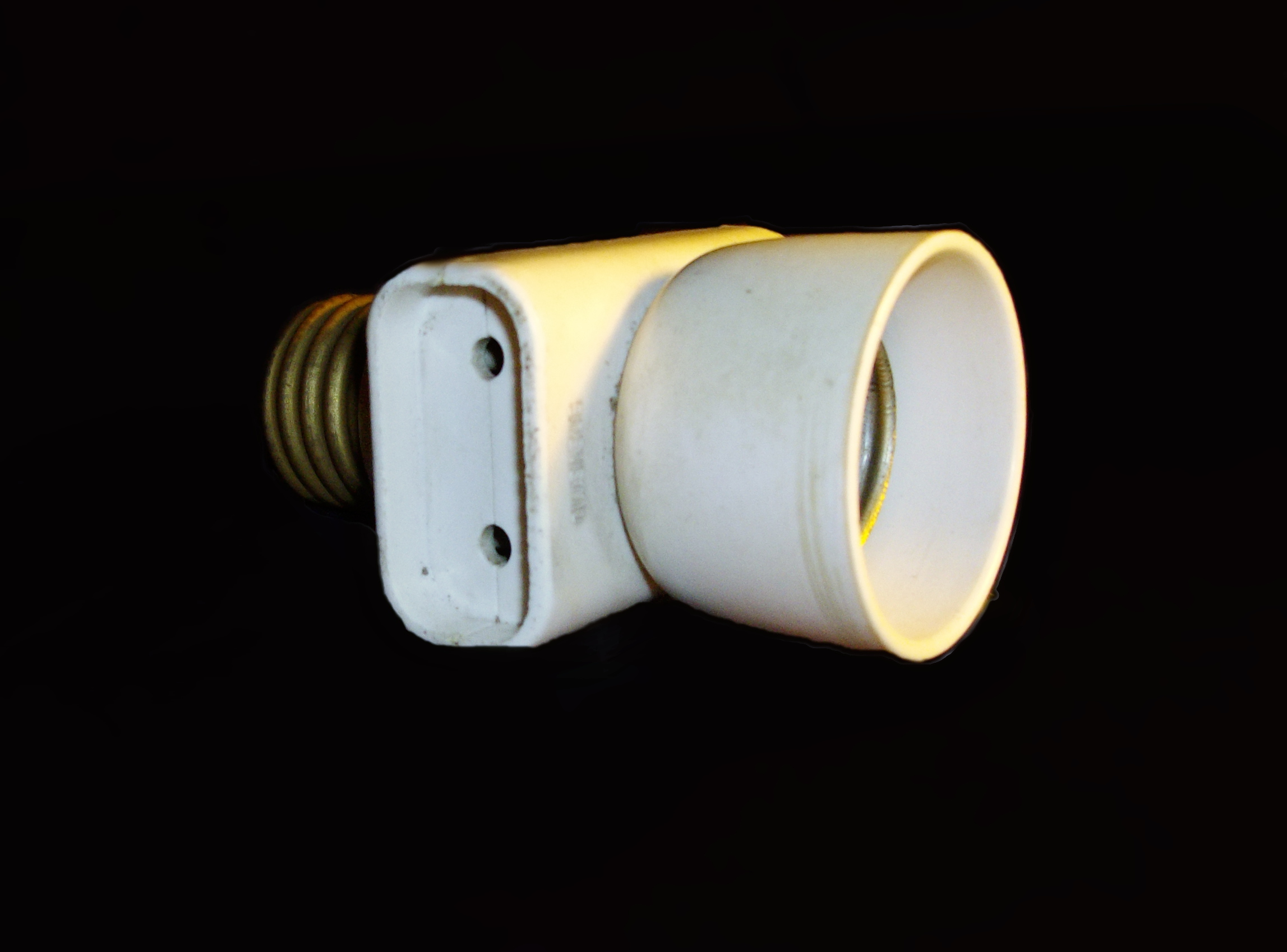 Lampholder with two P 10 sockets